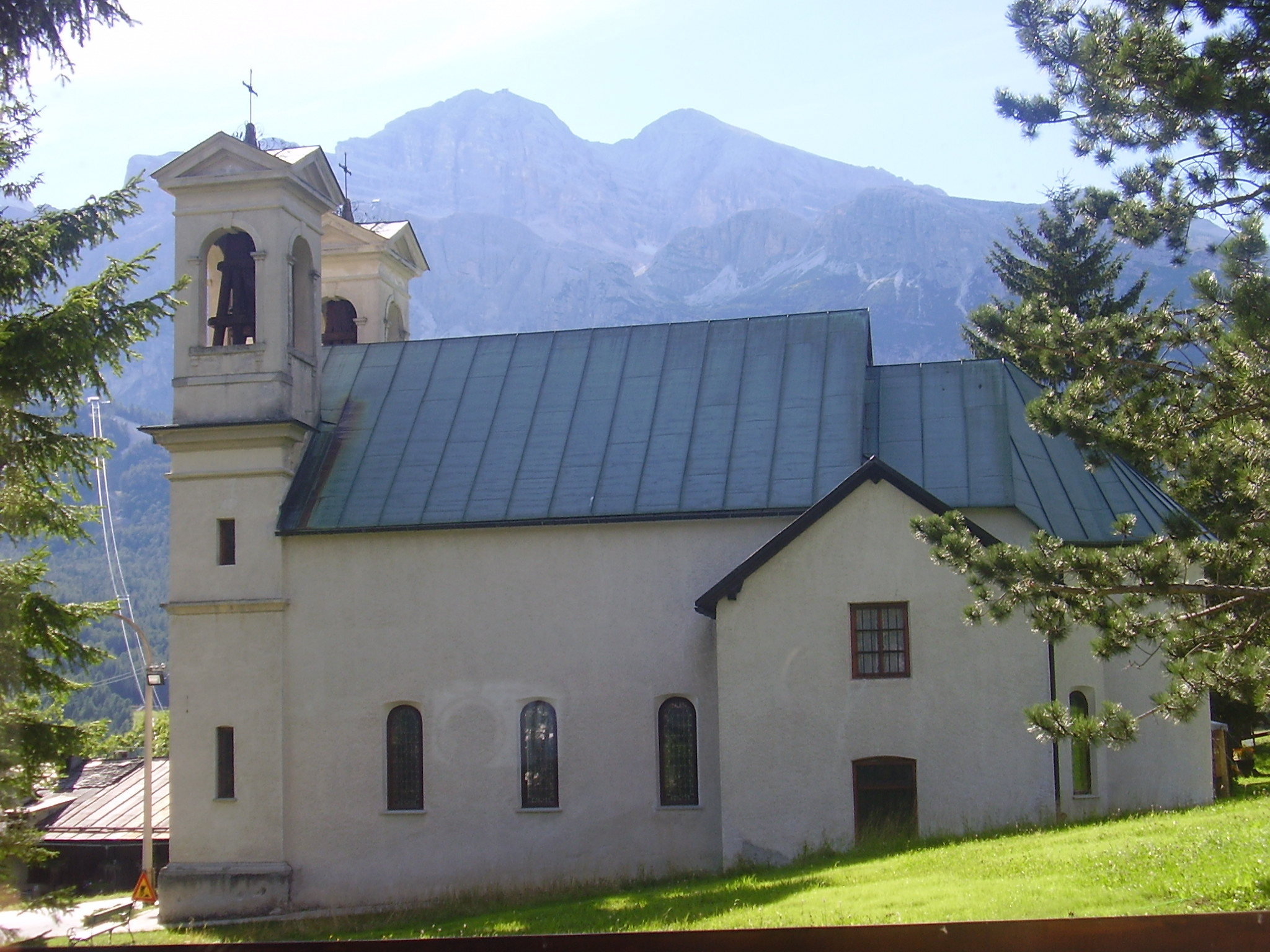 The nearside of the Blessed Virgin of Lourdes Chapel, in the frazione of Grava di Sotto, in Cortina d'Ampezzo, Italy. Behind, the Tofane massif.